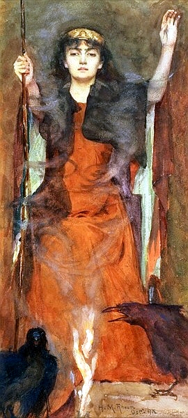 The Sorceress